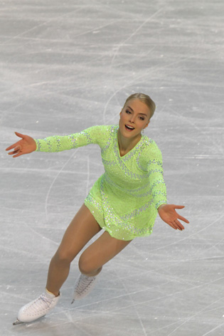 Kiira Korpi at the 2010 European Figure Skating Championships.